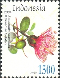 Stamps of Indonesia